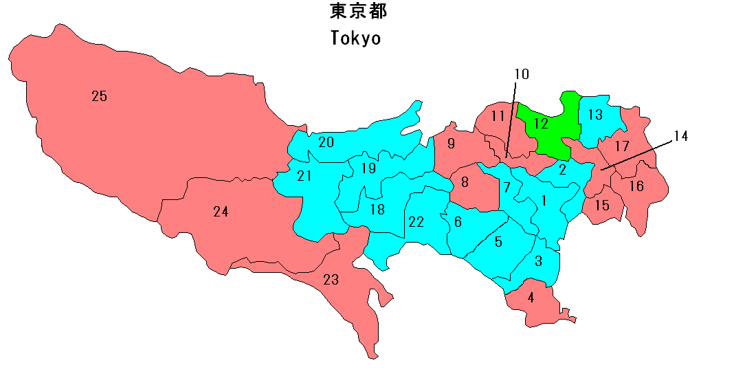 Presentation of the results of the Japan general election, 2003 in the single member districts of the Tokyo block, based on district boundary information in :ja:衆議院小選挙区一覧 and mapping tools provided by Japanese Wikipedia User Koba-chan. Color codes: LDP - red DPJ - light blue New Komeito - green SDP - purple New Conservative Party - dark blue Other/Independent - gray Some independent politicians joined major parties immediately after the election, and their districts are marked with a colored square around the number. This is also true for the members of the New Conservative Party, which was wholly subsumed into the LDP.